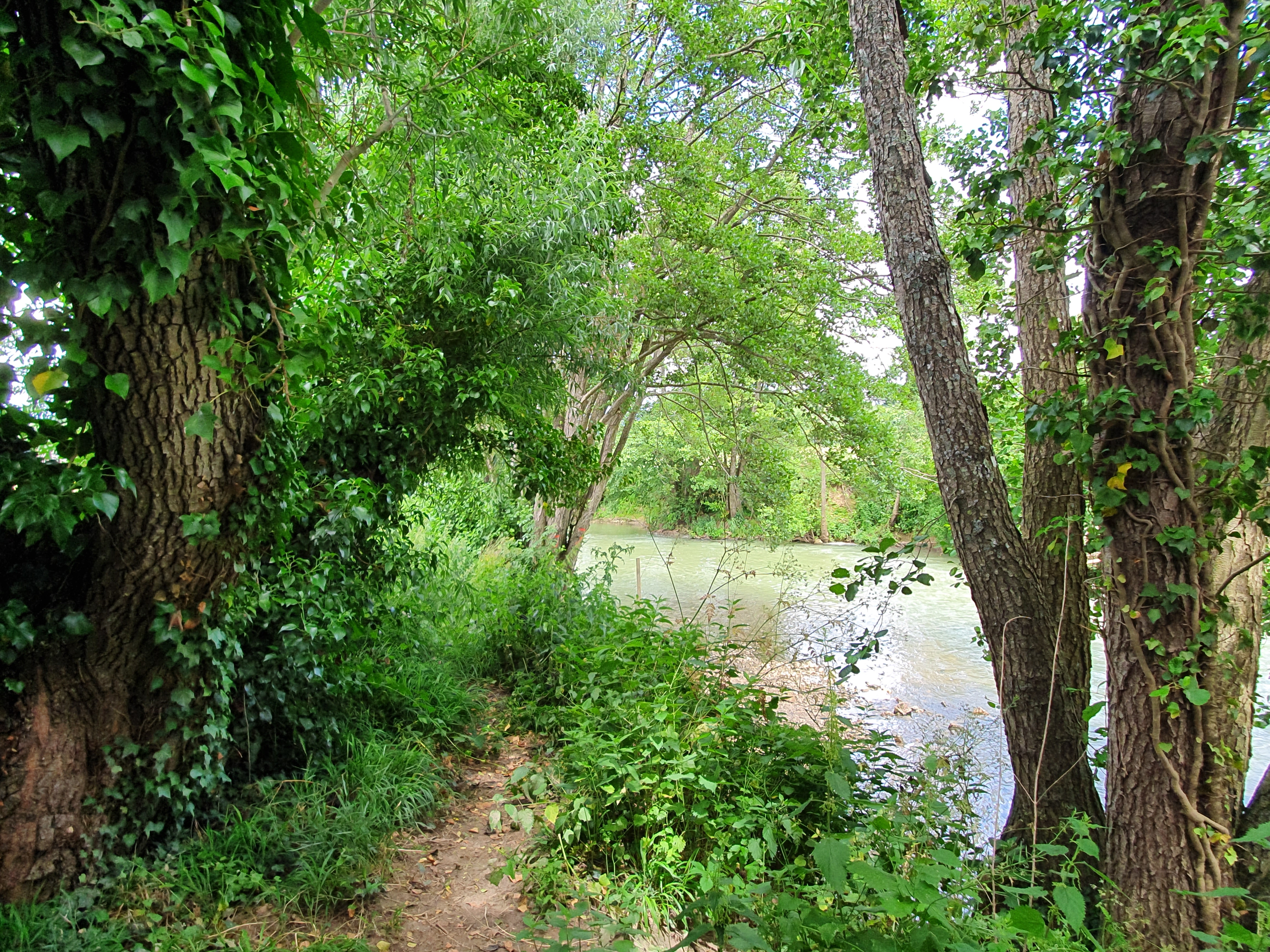 Picture of the Grand Morin, Seine-et-Morin, Seine-et-Marne, France